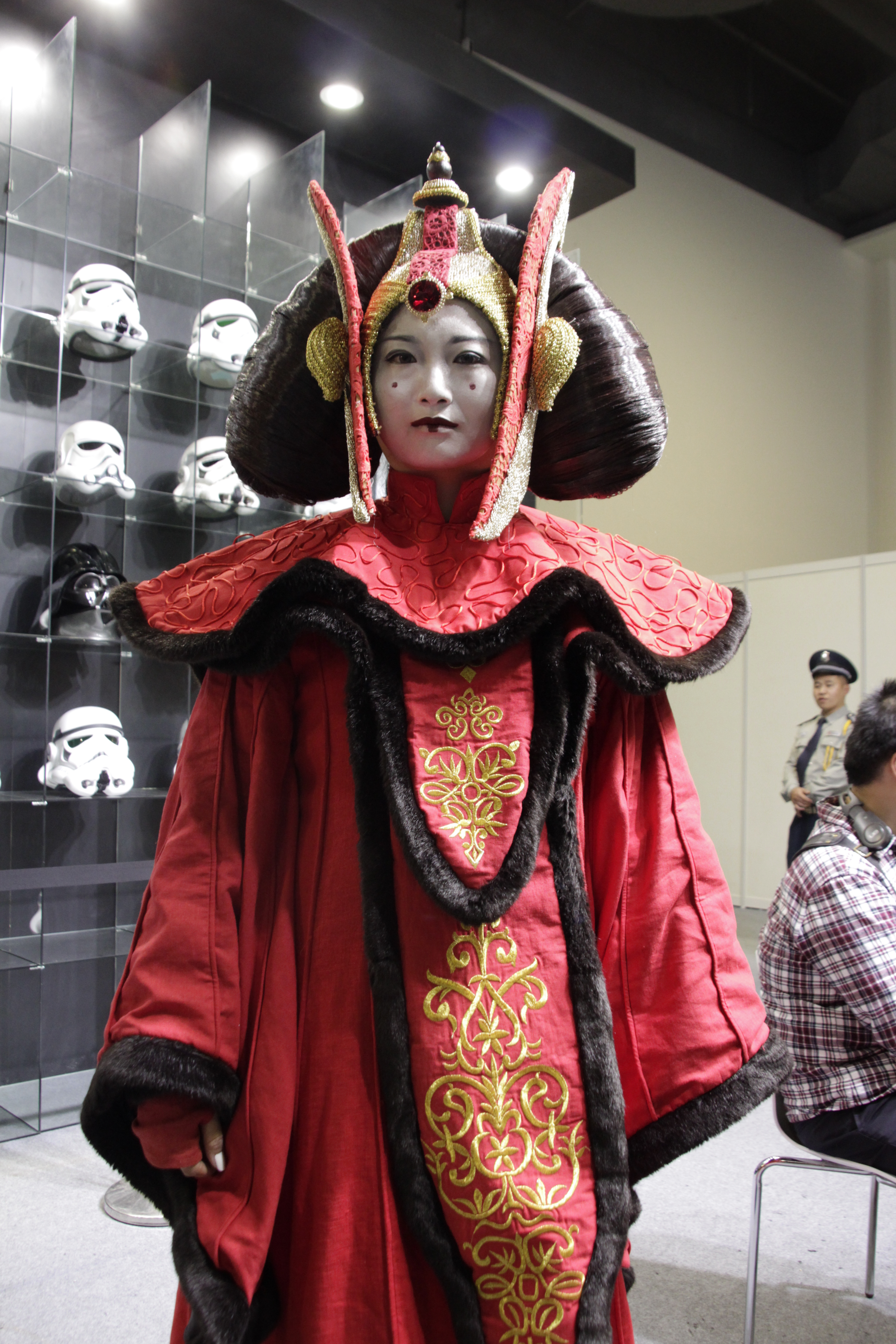 Cosplay at Shanghai Comic Con 2015.